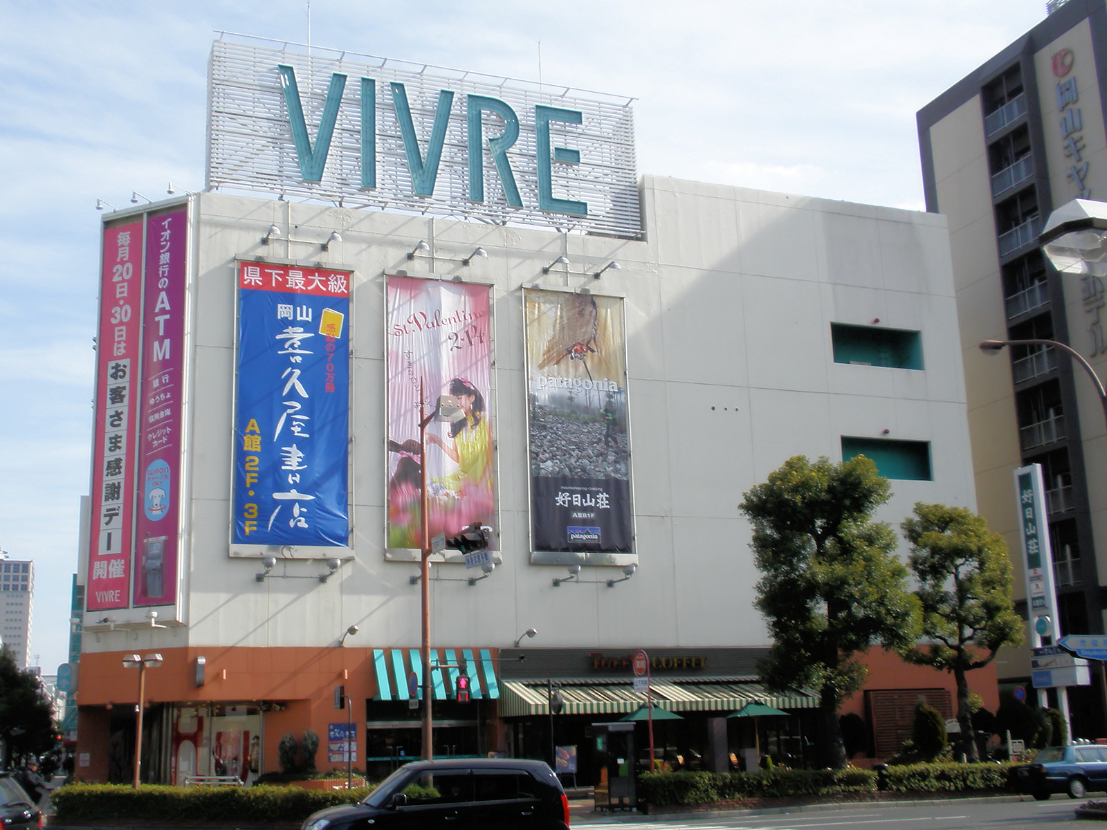 Okayama VIVRE, Kita-ku, Okayama.